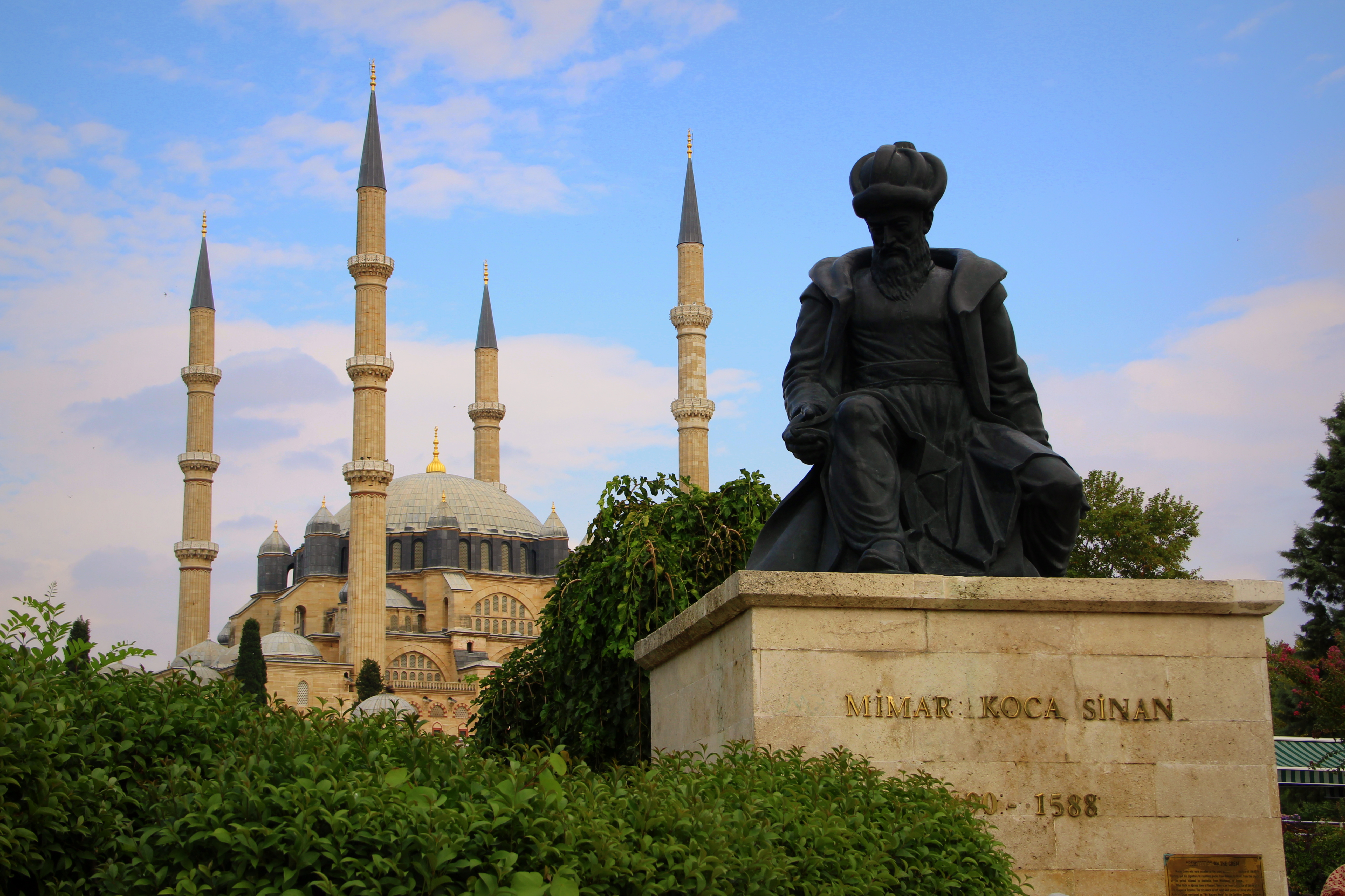 Selimiye Mosque and The Statue of Architect Sinan